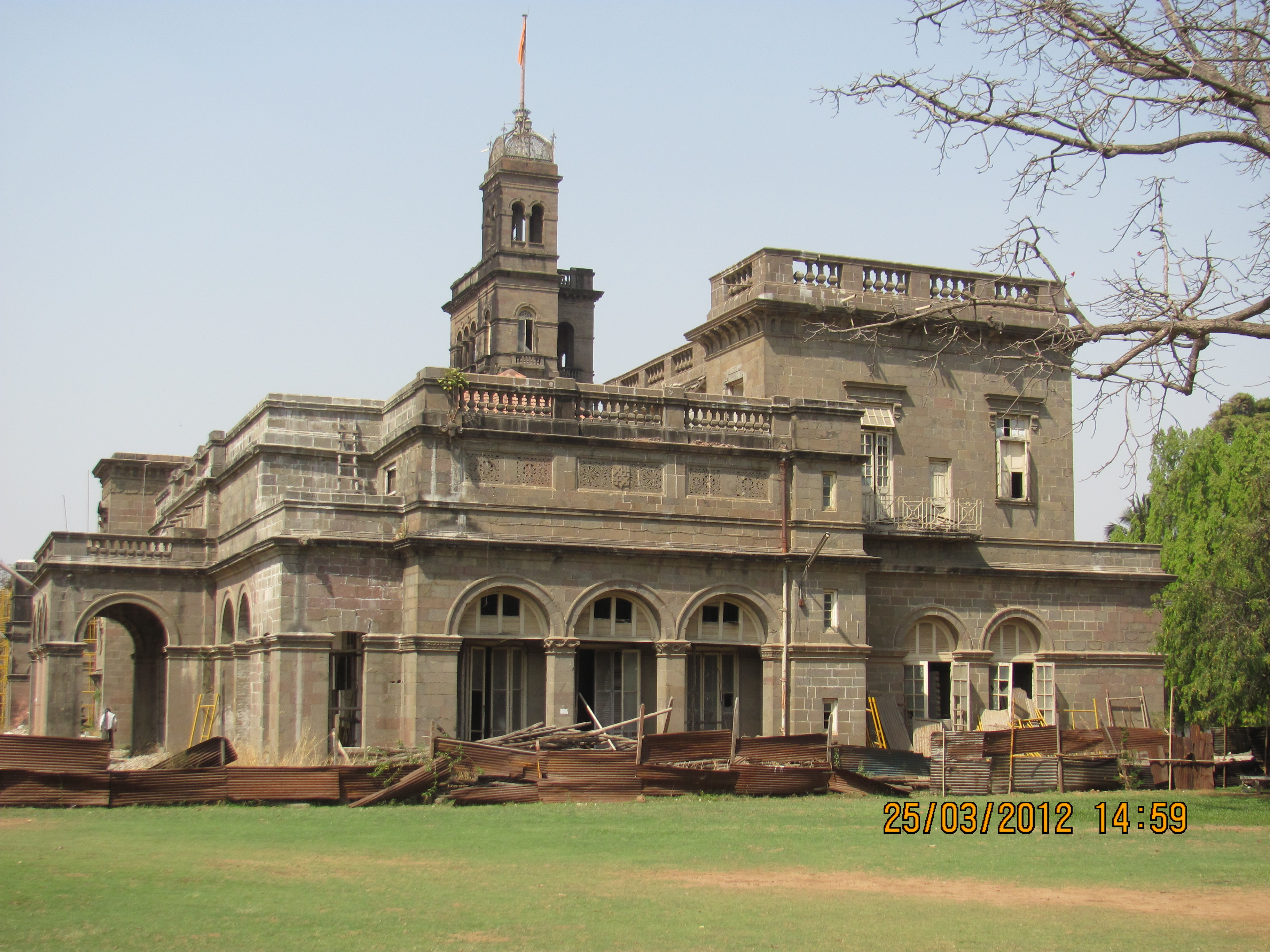 University of Pune, Situated at Pune, Maharashtra, India. Pune is also known as Oxford of the East.